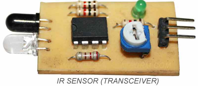 Infrared Transmitter and Receiver module.